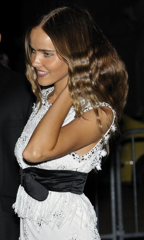 Actress Isabel Lucas – Défilé Channel. People aux défilés de Haute-Couture, Paris, le 6 Juillet 2009. Collection Automne-Hiver 2009/2010.